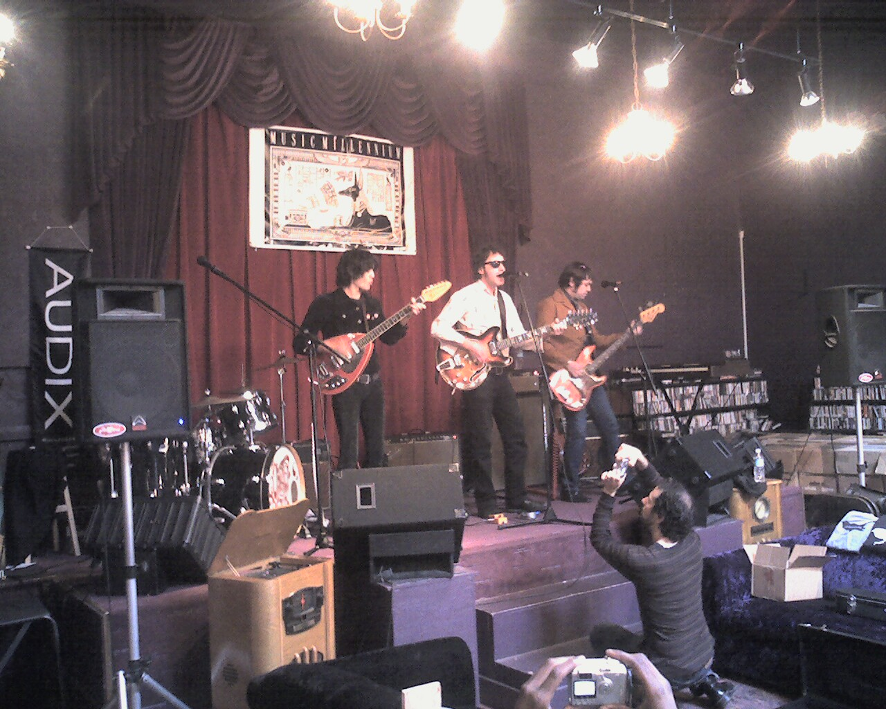 We just finished watching The Quarter After and now are enjoying the sweet sounds of the Lovetones. They are on tour and decided to play a few song here up off 23rd before the show tonight at Kelly's Olympian. Kelly's expanded and now has a kick ass stage area. If you like good psych rock, come on down and see these bands. The Lovetones Kelly's Olympian Saturday night 4th and SW Washington